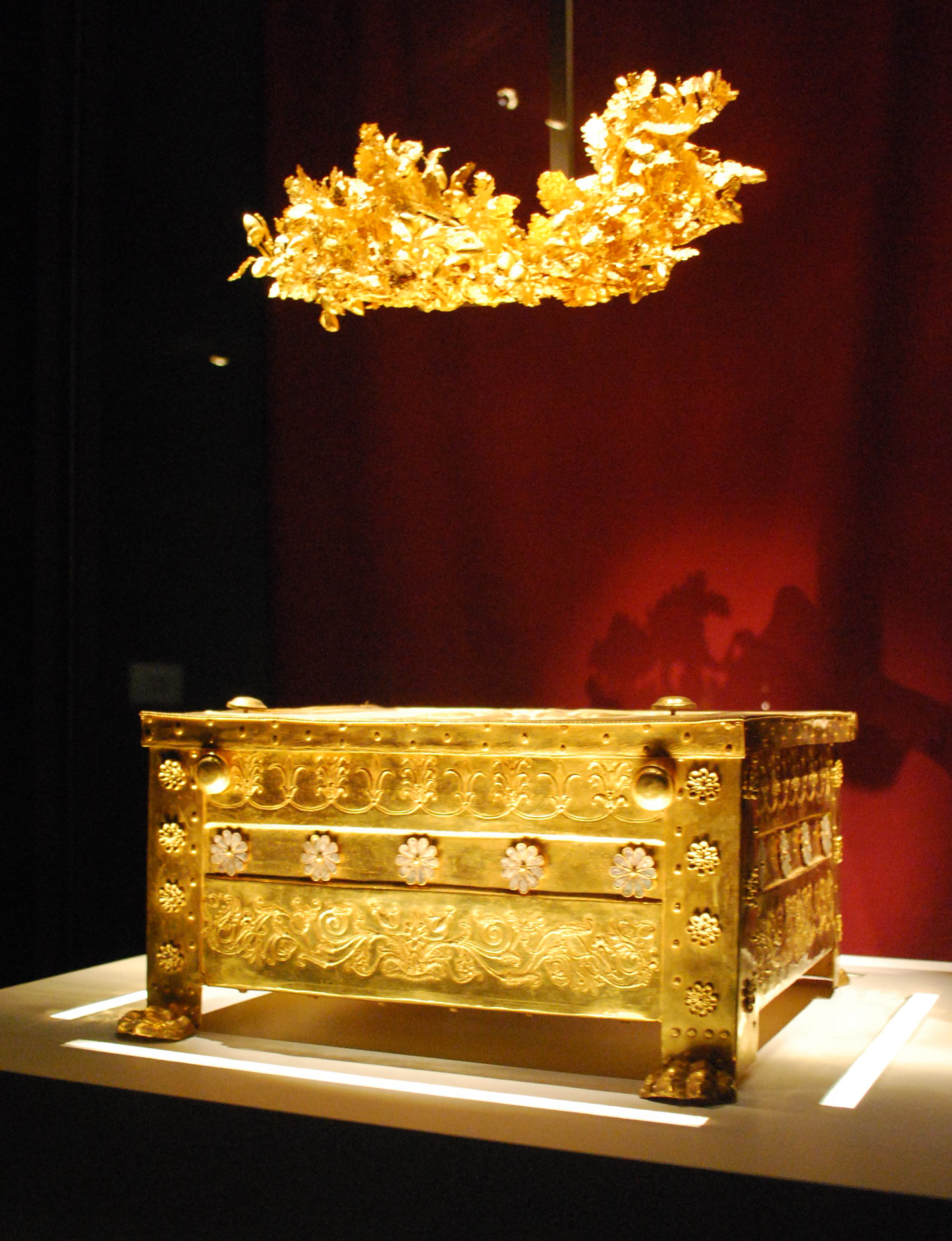 Golden larnax of Philip II of Macedon (382-336 BC) found and exhibited in Vergina, Greece.